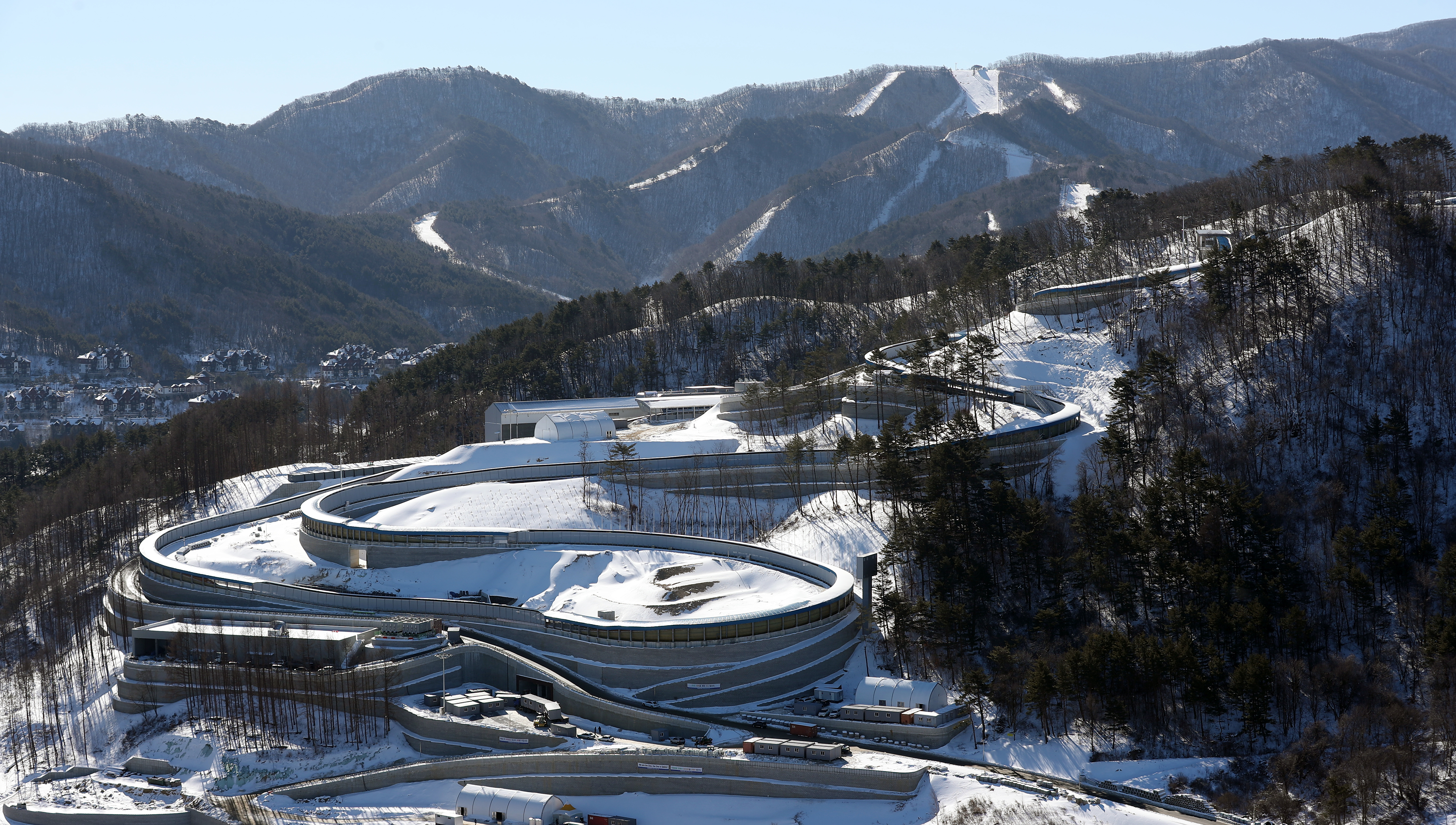 PyeongChang Alpensia Sliding Center February 2, 2017 Alpensia, Pyeongchang-gun, Gangwon-do Ministry of Culture, Sports and Tourism Korean Culture and Information Service ( Official Photographer : Jeon Han This official Republic of Korea photograph is being made available only for publication by news organizations and/or for personal printing by the subject(s) of the photograph. The photograph may not be manipulated in any way. Also, it may not be used in any type of commercial, advertisement, product or promotion that in any way suggests approval or endorsement from the government of the Republic of Korea. 알펜시아 슬라이딩 센터 2017-02-02 평창군 문화체육관광부 해외문화홍보원 코리아넷 전한